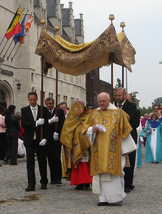 Cardinal Godfried Danneels (face hidden) holding a monstrance with a humeral veil around his shoulders.